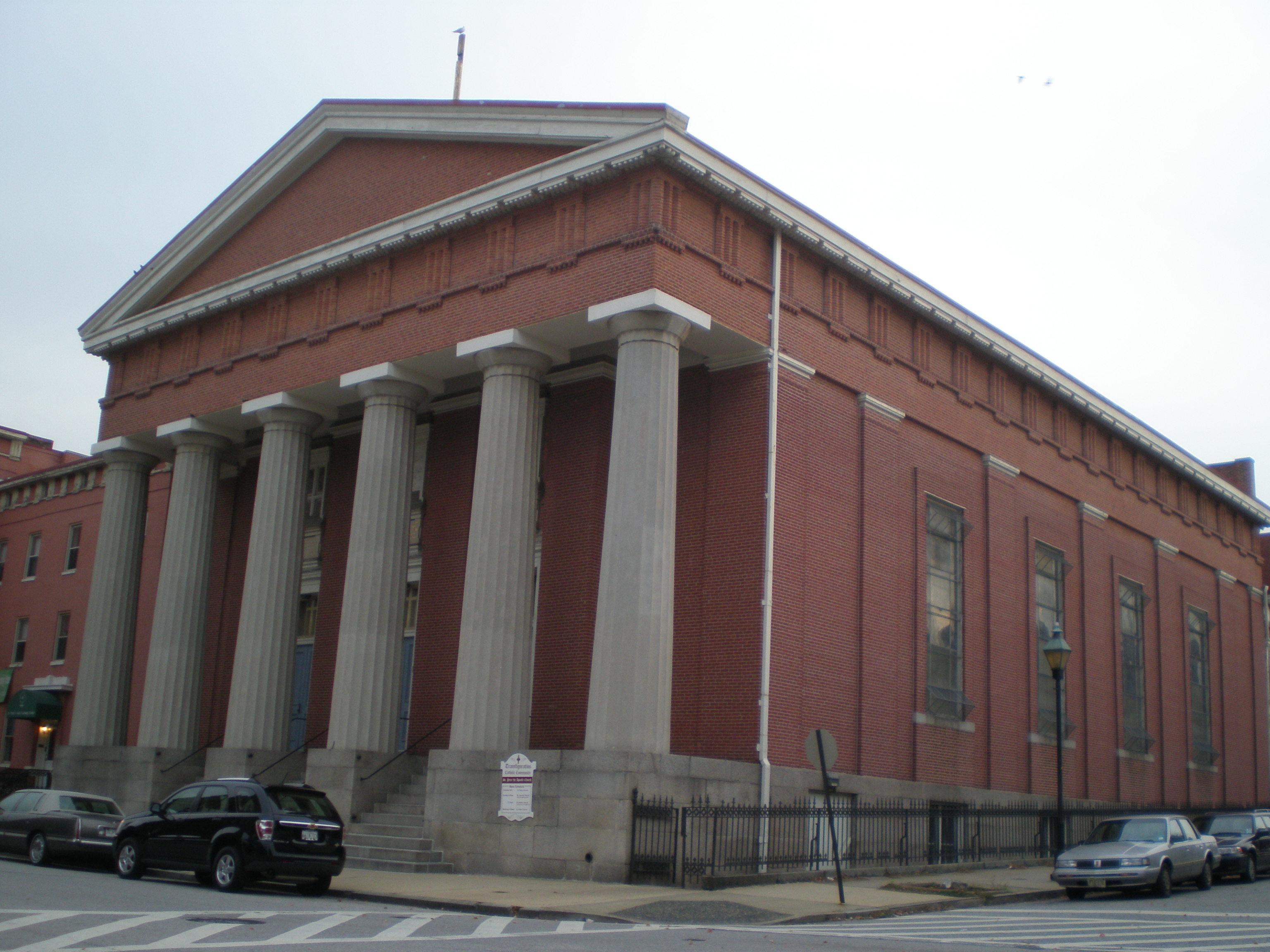 The front and right of St. Peter the Apostle Church in Baltimore, MD